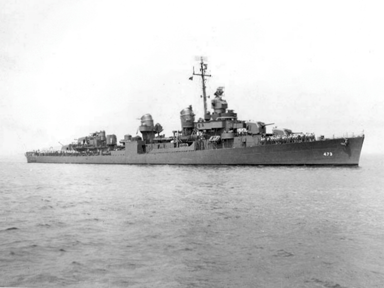 The U.S. Navy destroyer USS Bennett (DD-473) in Boston Harbor, Massacusetts (USA), on 7 May 1943.